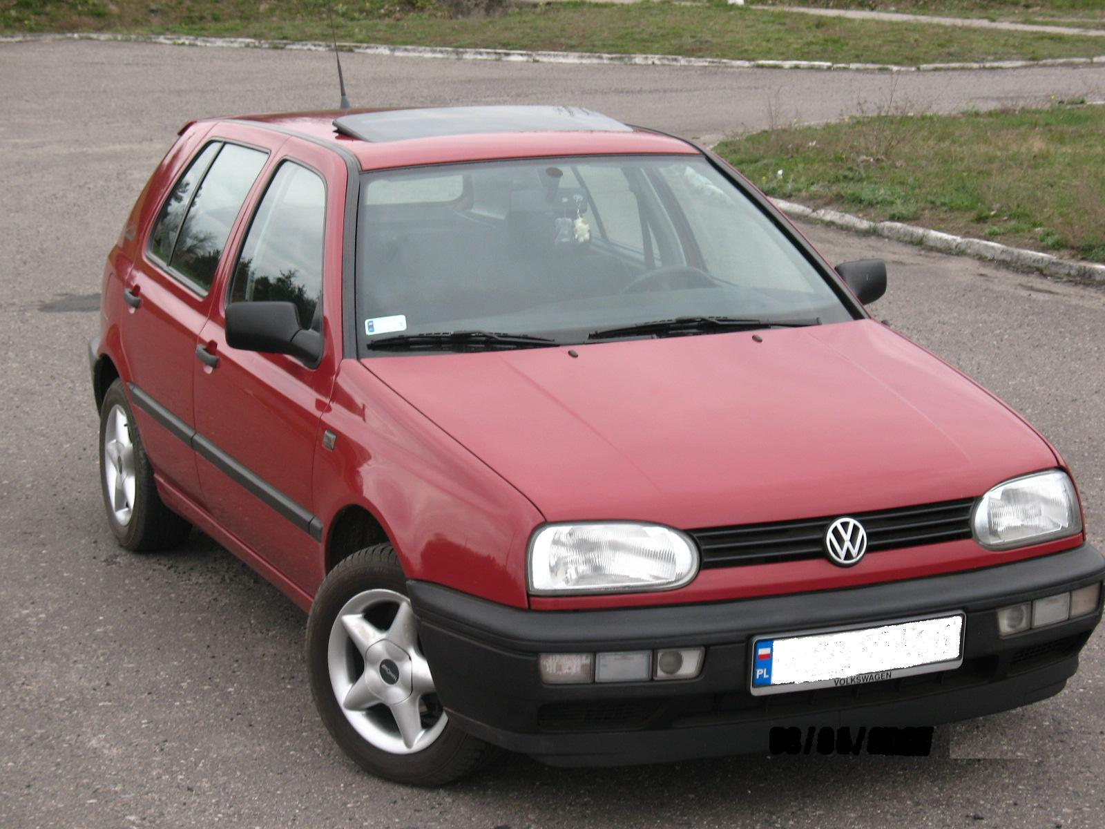 Volkswagen Golf III - 1993 year